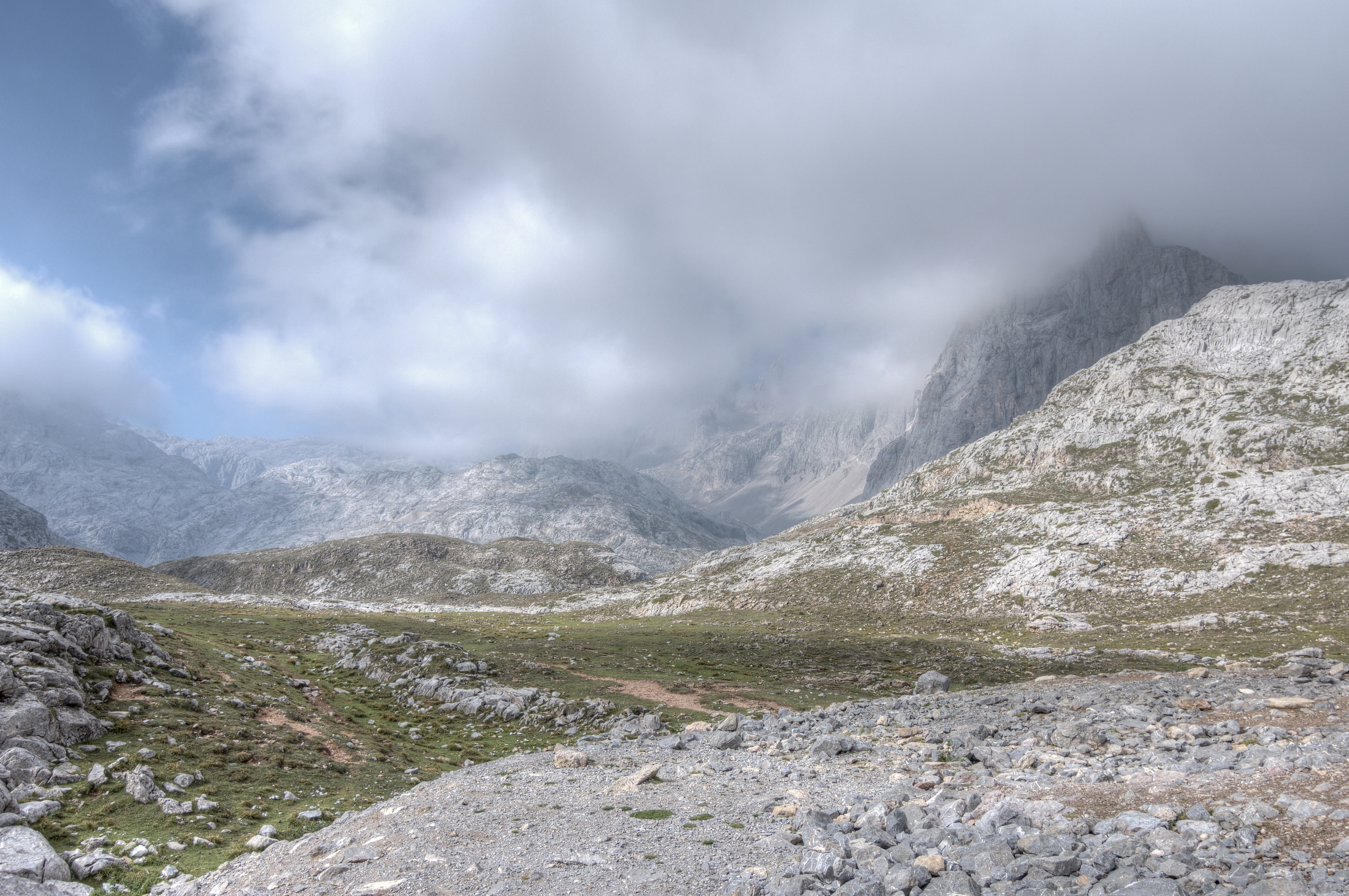 Picos de Europa past the Fuente Dé cable-car, Cantabria, Spain.